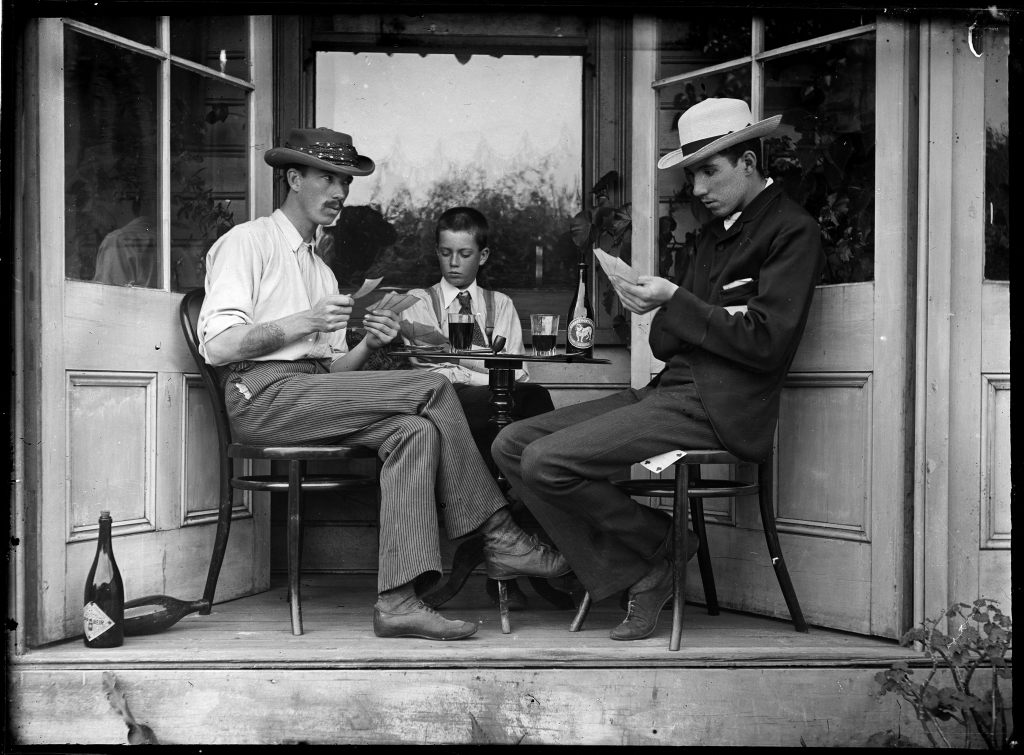 Stage set of three men playing cards in an alcove, Australia. Read more